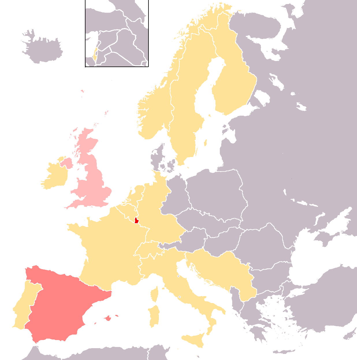 Map of Eurovision 1973